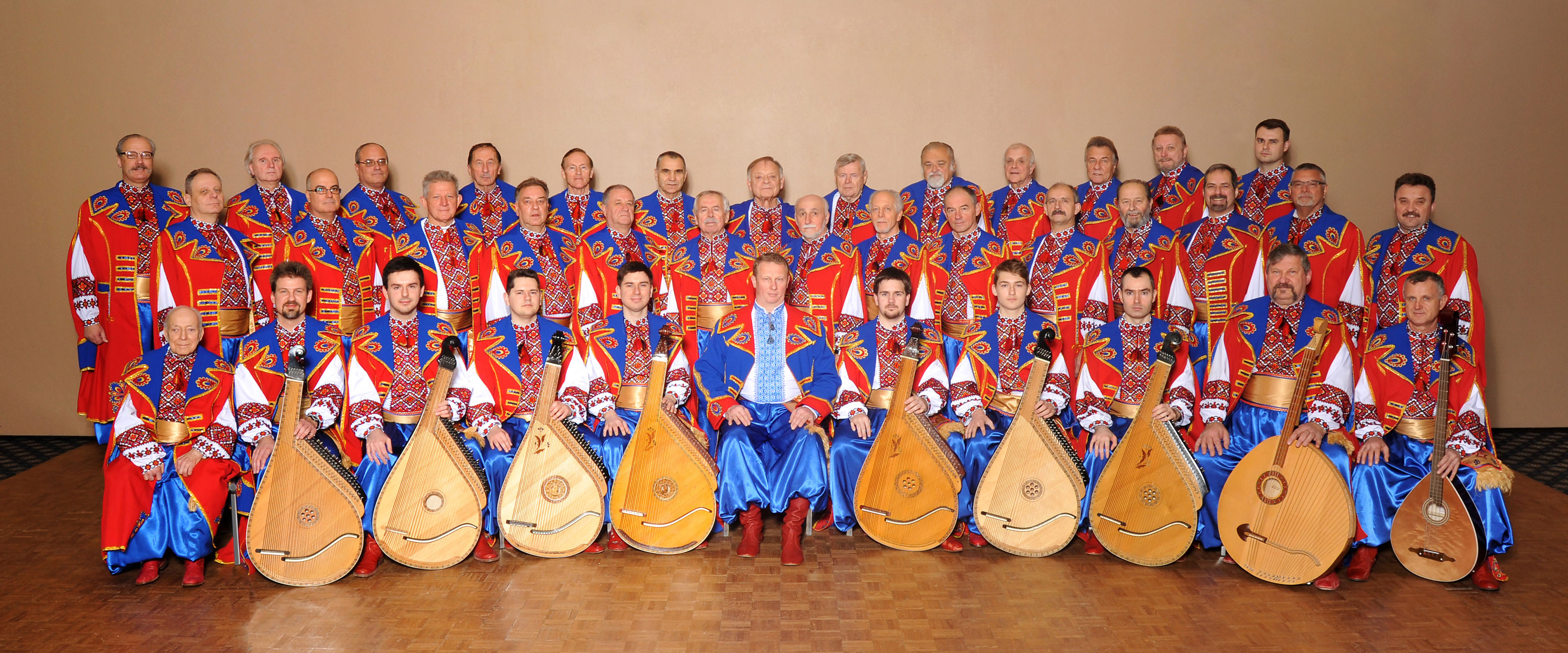 Canadian Bandurist Capella Group Photo 2014